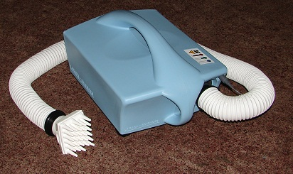 A LouseBuster device for headlice treatments in Hungary [1]